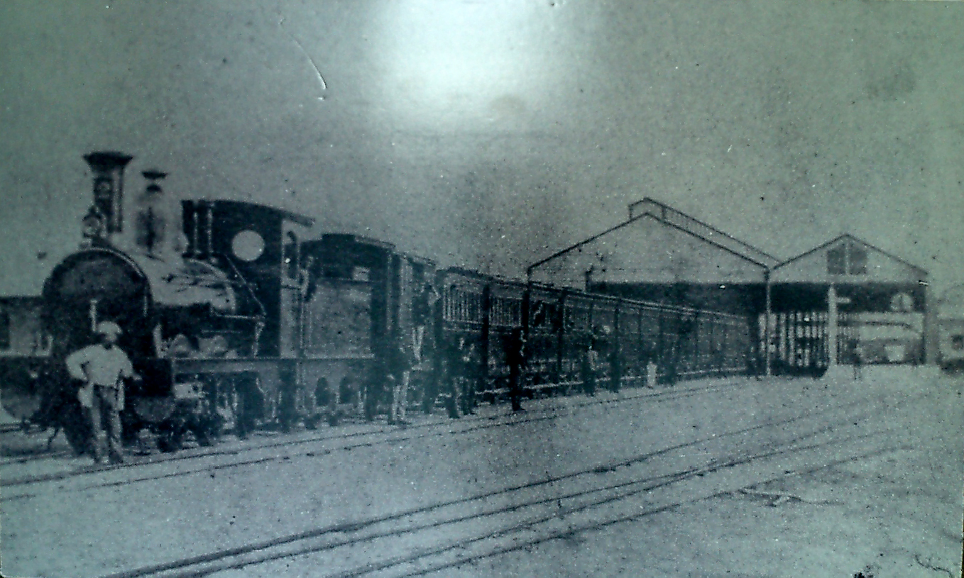 Kobe Station